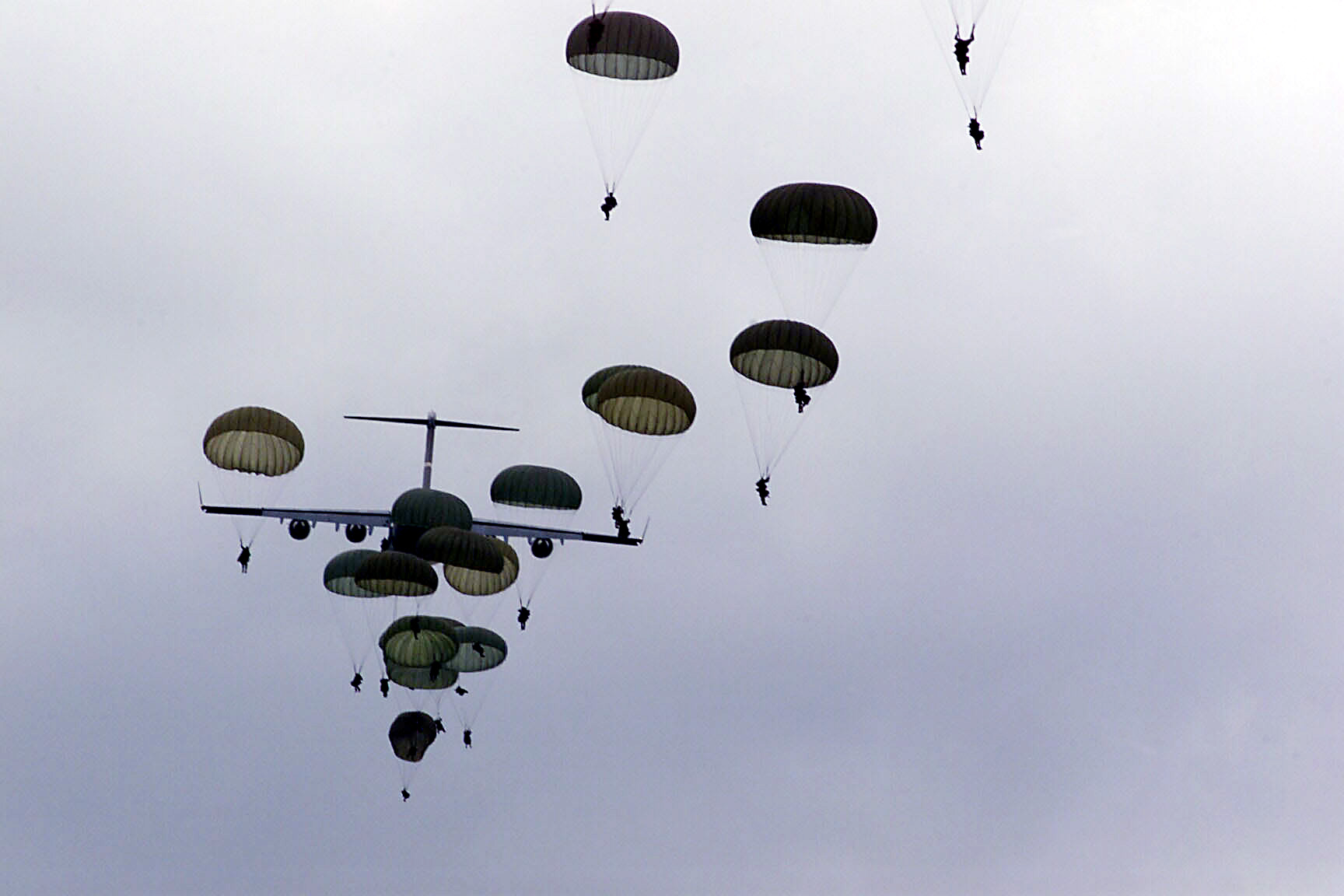 Paratroopers from the U.S. Army's 82nd Airborne Division and the Ukraine's 80th Air Mobile parachute from a U.S. Air Force C-17 Globemaster III during Exercise Peaceshield 2000 at Yavoriv, Ukraine, on July 17, 2000. Approximately 1000 soldiers from 22 countries are taking part in the peacekeeping training exercise at the Partnership for Peace Training Center at Yavoriv.